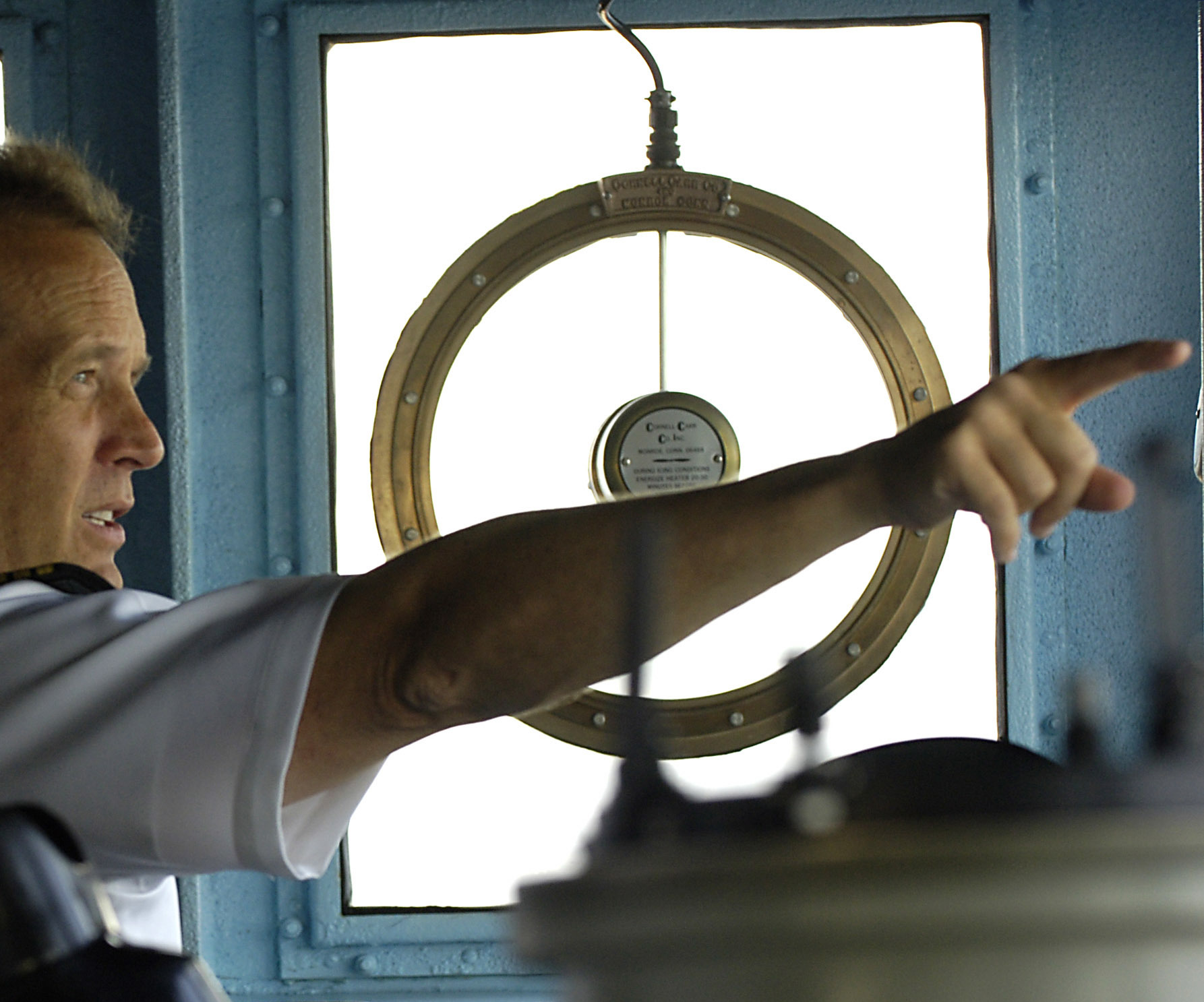 Yokosuka, Japan (Aug 29, 2006) - The Commanding Officer of the guided-missile cruise USS Shiloh (CG 67), Capt. Kevin S.J. Eyer briefs the Secretary of the Navy (SECNAV), the Honorable Dr. Donald C. Winter on the ship’s bridge. Secretary Winter was aboard the Shiloh during her sea and anchor detail, while making preparations for arrival at Commander, Fleet Activities Yokosuka. U.S. Navy photo by Chief Mass Communication Specialist Shawn P. Eklund (RELEASED)